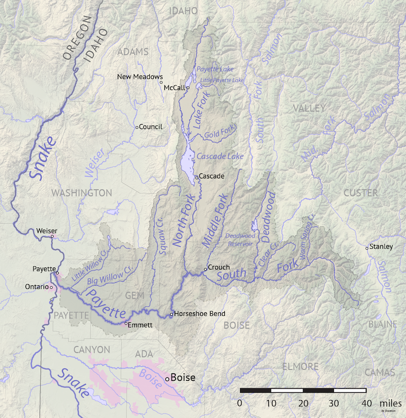 Map of the Payette River drainage basin in western Idaho. Made using USGS National Map and NASA SRTM data.